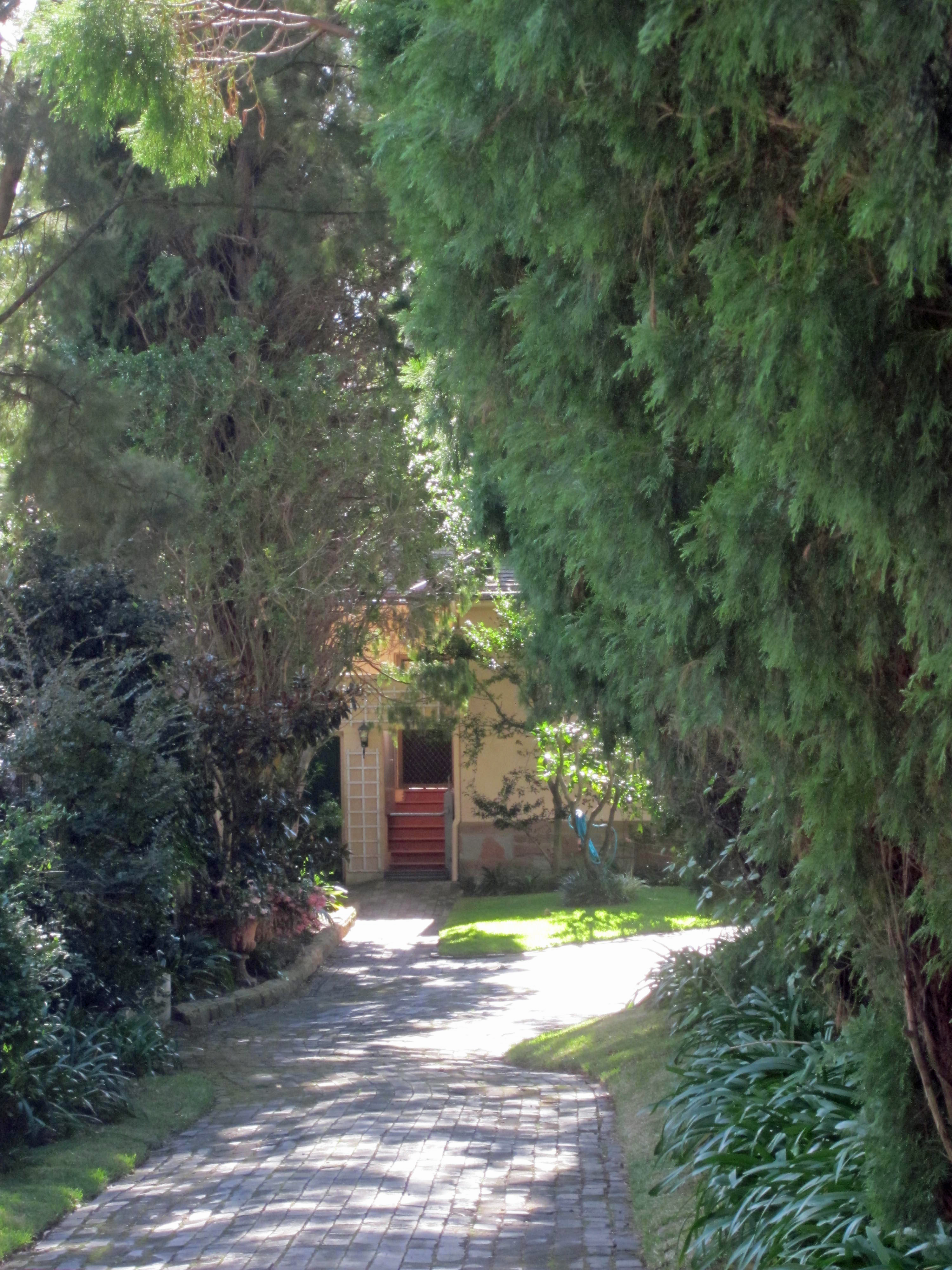 Entrance to Fenton and surrounds, 8 Albert Street, Edgecliff, NSW. This property is listed on the New South Wales State Heritage Register